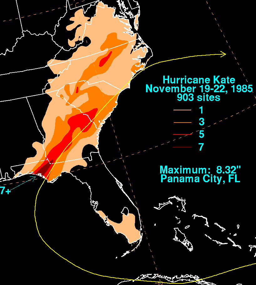 Storm total rainfall map of Hurricane Kate during November 1985.